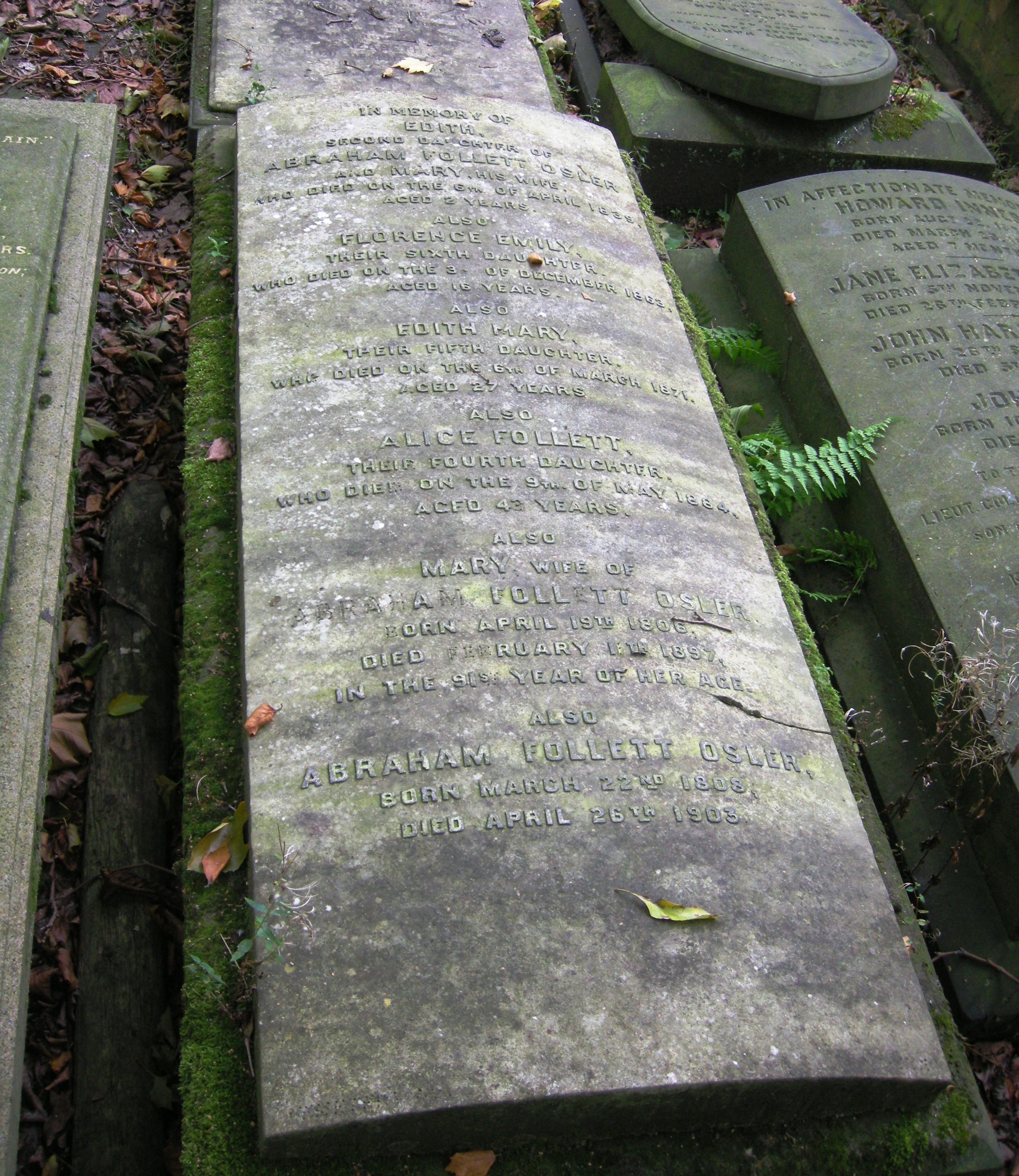 Grave of Abraham Follett Osler (22 March 1808 – 26 April 1903), meteorologist and chronologist; his wife Mary (19 April 1806 – 11 February 1897); and their daughters Edith Follett (d. 6 April 1839, aged 2); Alice Follett (d. 9 May 1884, aged 43); Edith Mary Follett (d. 6 March 1871, aged 27); and Florence Emily Follett (d. ?30 December 1863, aged 16); in Key Hill Cemetery, Hockley, Birmingham.